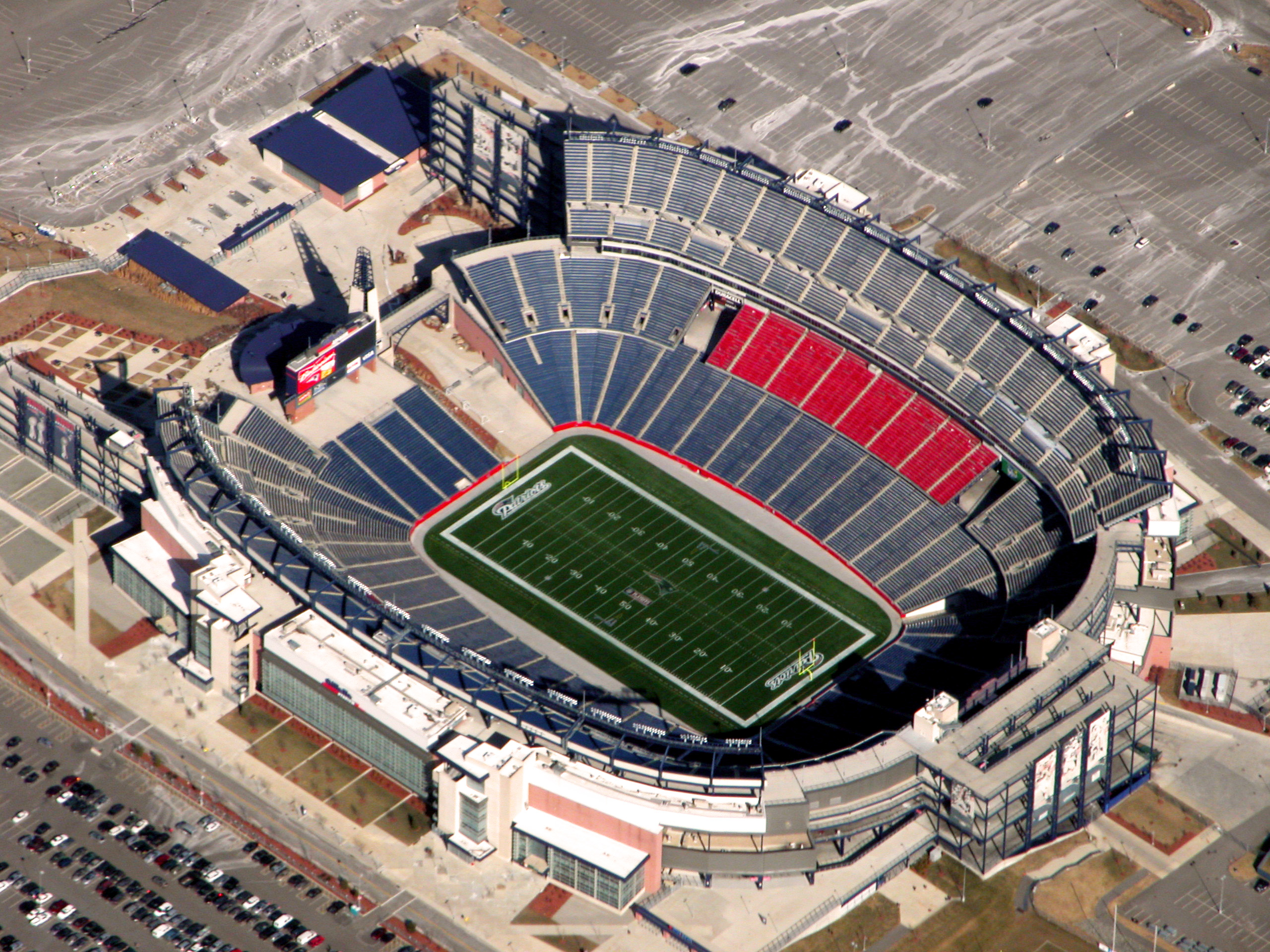 Gillette stadium from above